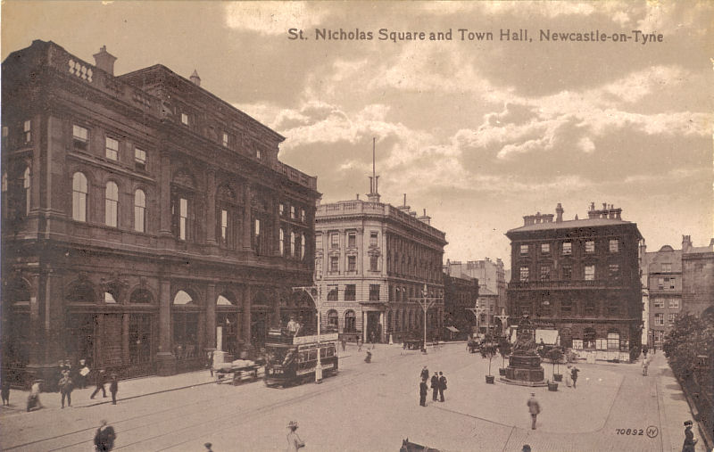 Old Postcard of St Nicholas Square and Town Hall, Newcastle upon Tyne